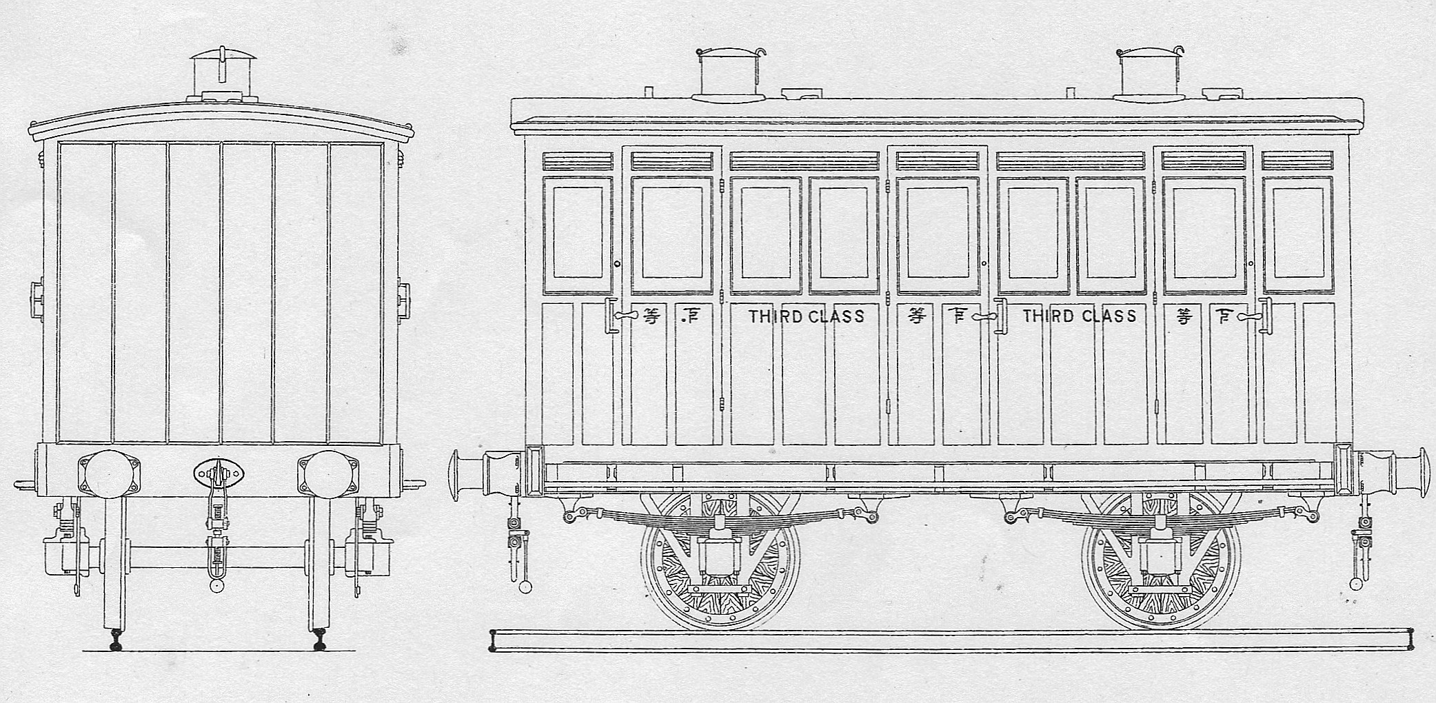 picture of (so called) japanese oldest passenger car